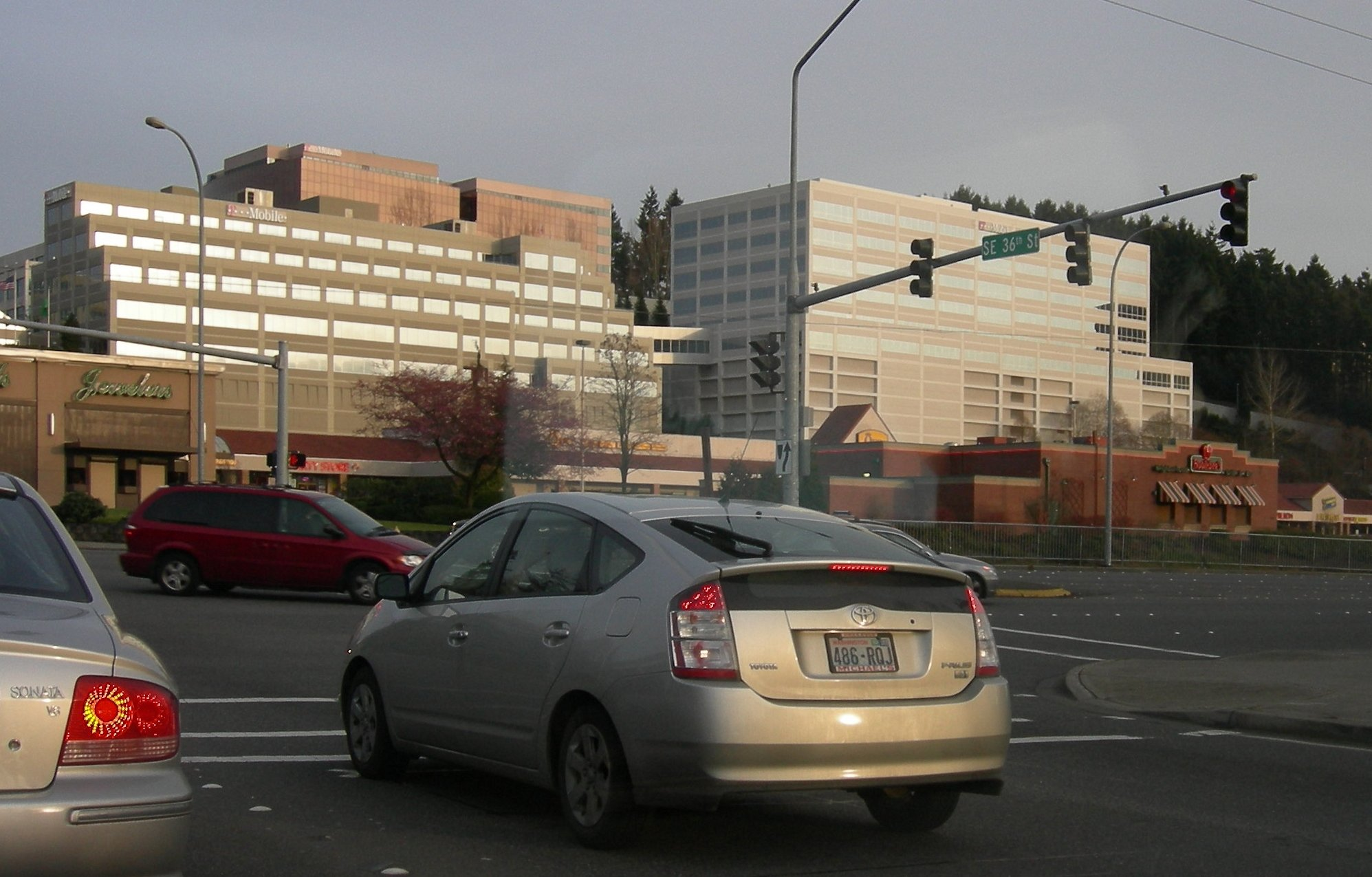 Headquarters of T-Mobile in the Factoria district of Bellevue, Washington.